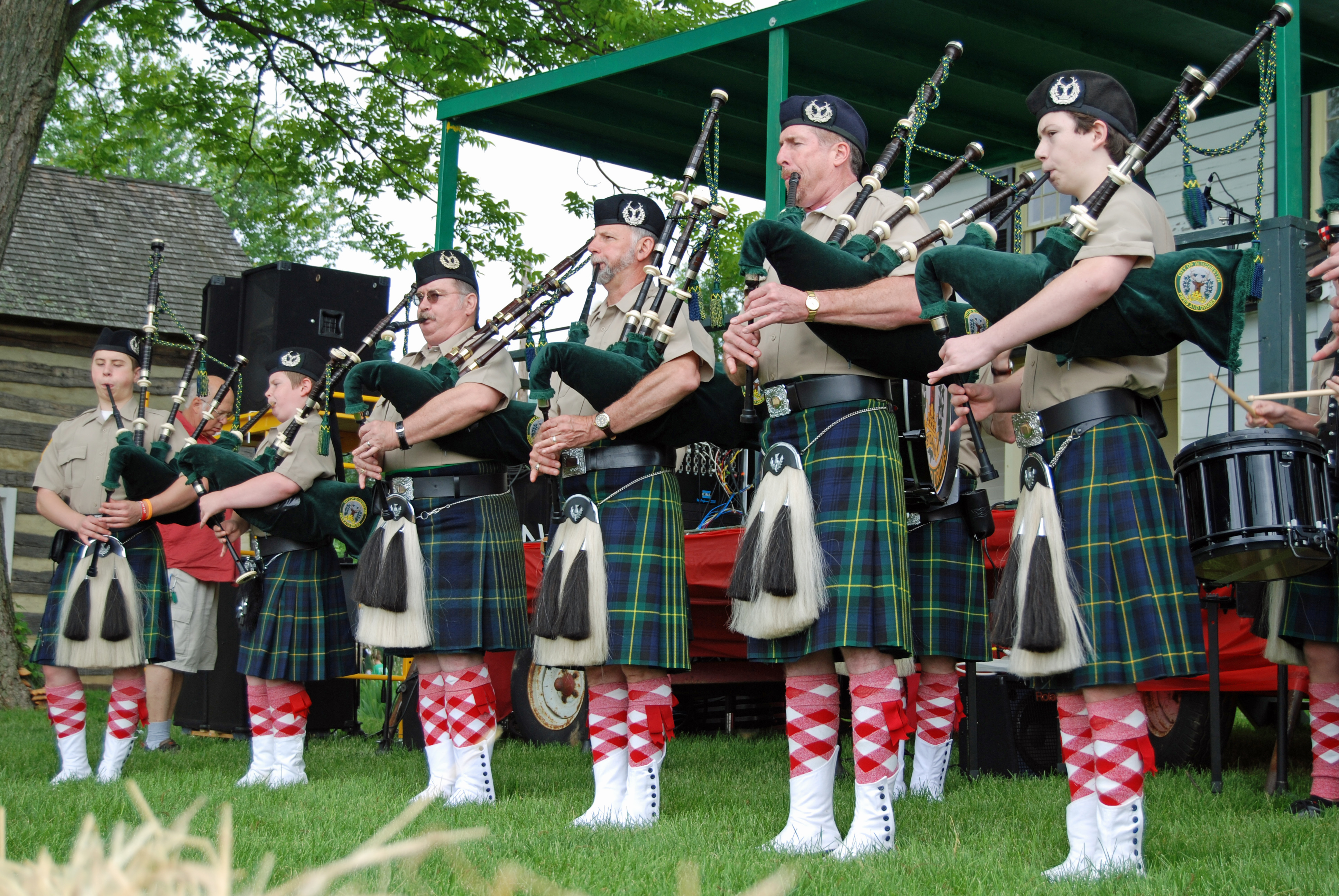 Bagpipes at the Strawberry Festival